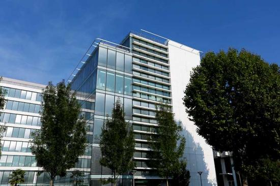 This is the current Bansard headquarters based in Rungis, France. We would like to showcase this on the page's infobox. This was given to me by the marketing team of Bansard that have full rights of that picture and can be found on the website.